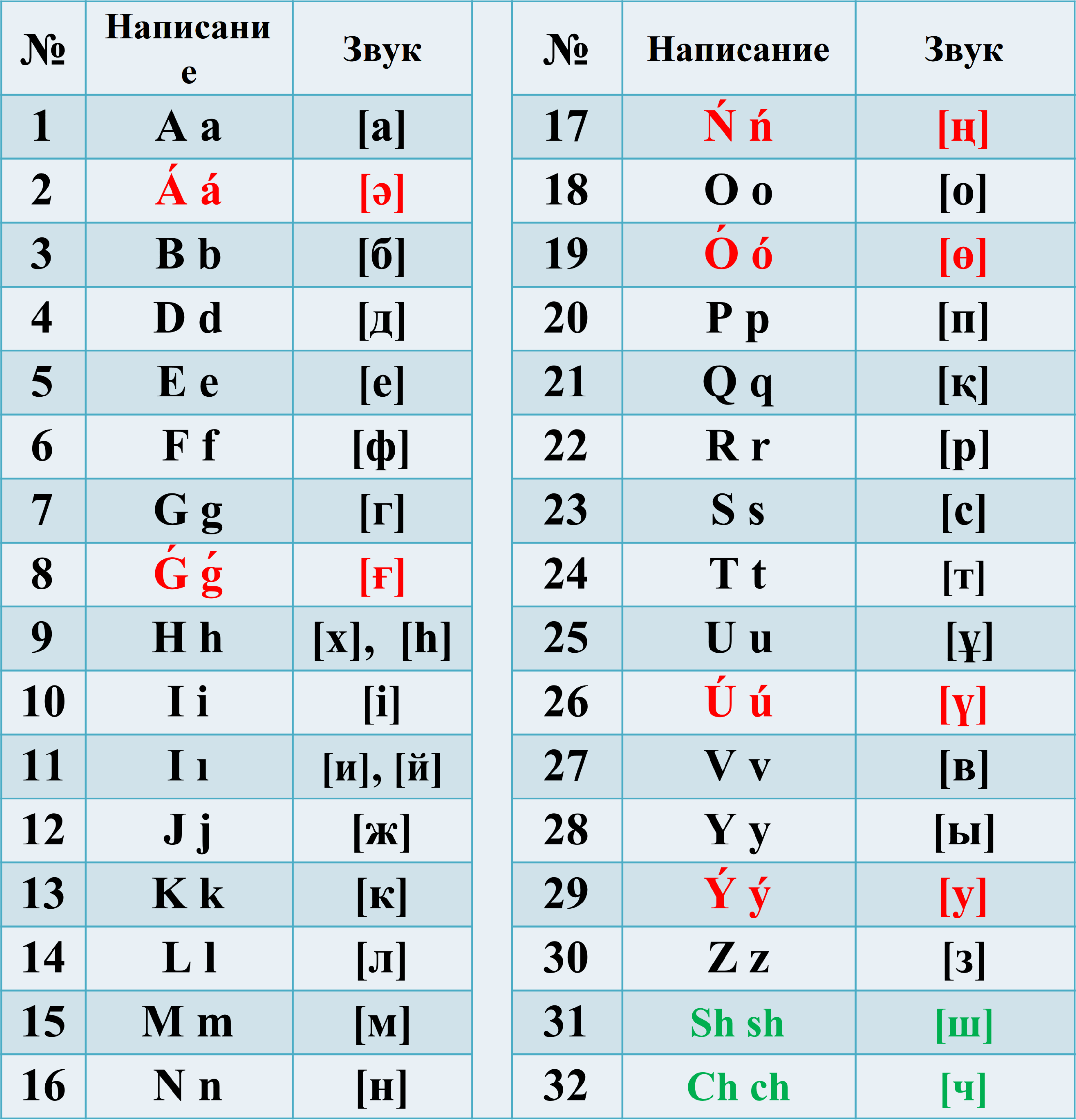 Table of the Latin alphabet for the Kazakh language, according to decree #637 of the President of Kazakhstan of 19 February 2018